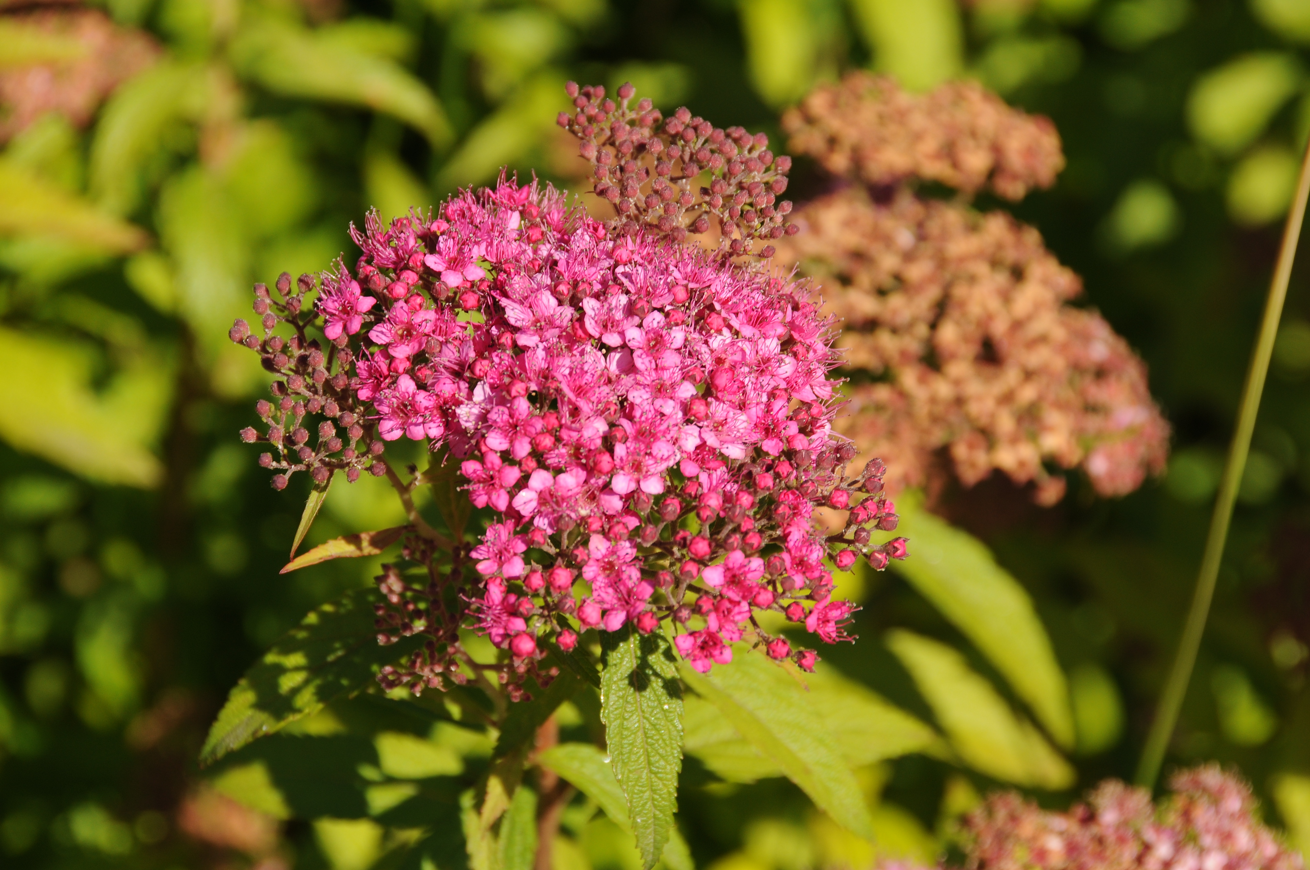 Spiraea japonica in Ponte de Lima, Portugal.